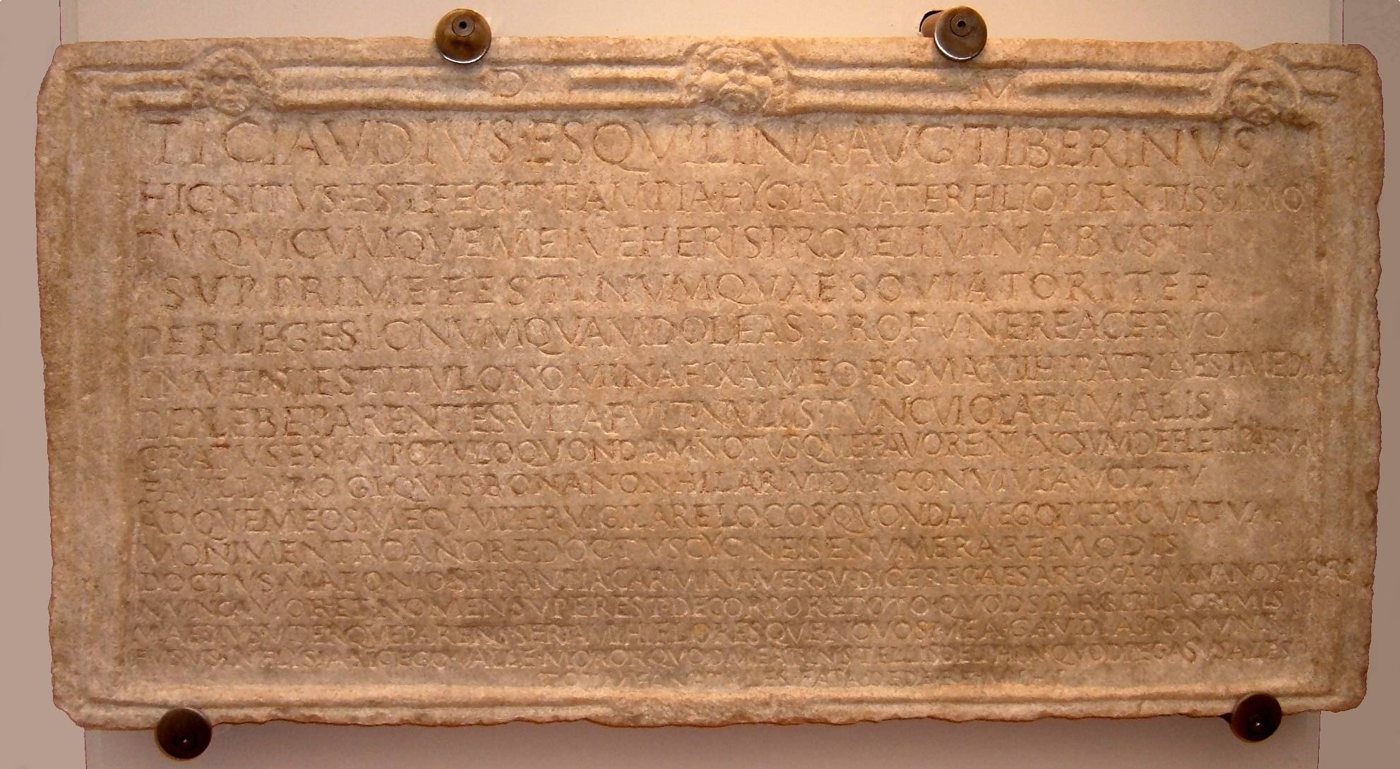 Sepulchral inscription of Tiberius Claudius Tiberinus. CIL VI 10097 = CIL VI 33960 = AE 2000, 99.